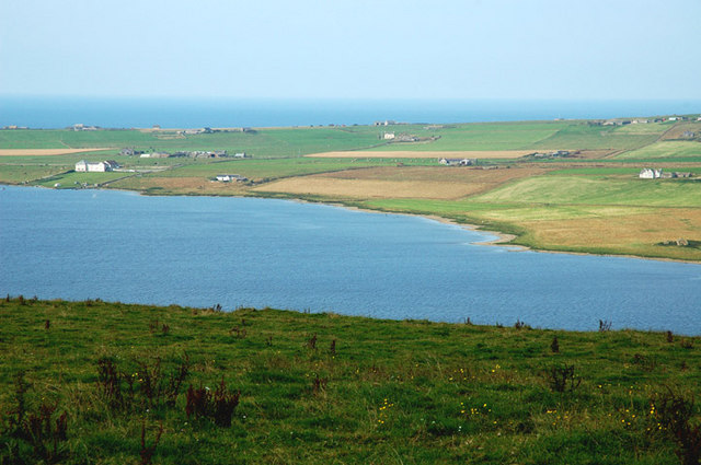 Boardhouse Loch from Ravie Hill. Barony Hotel is across the loch